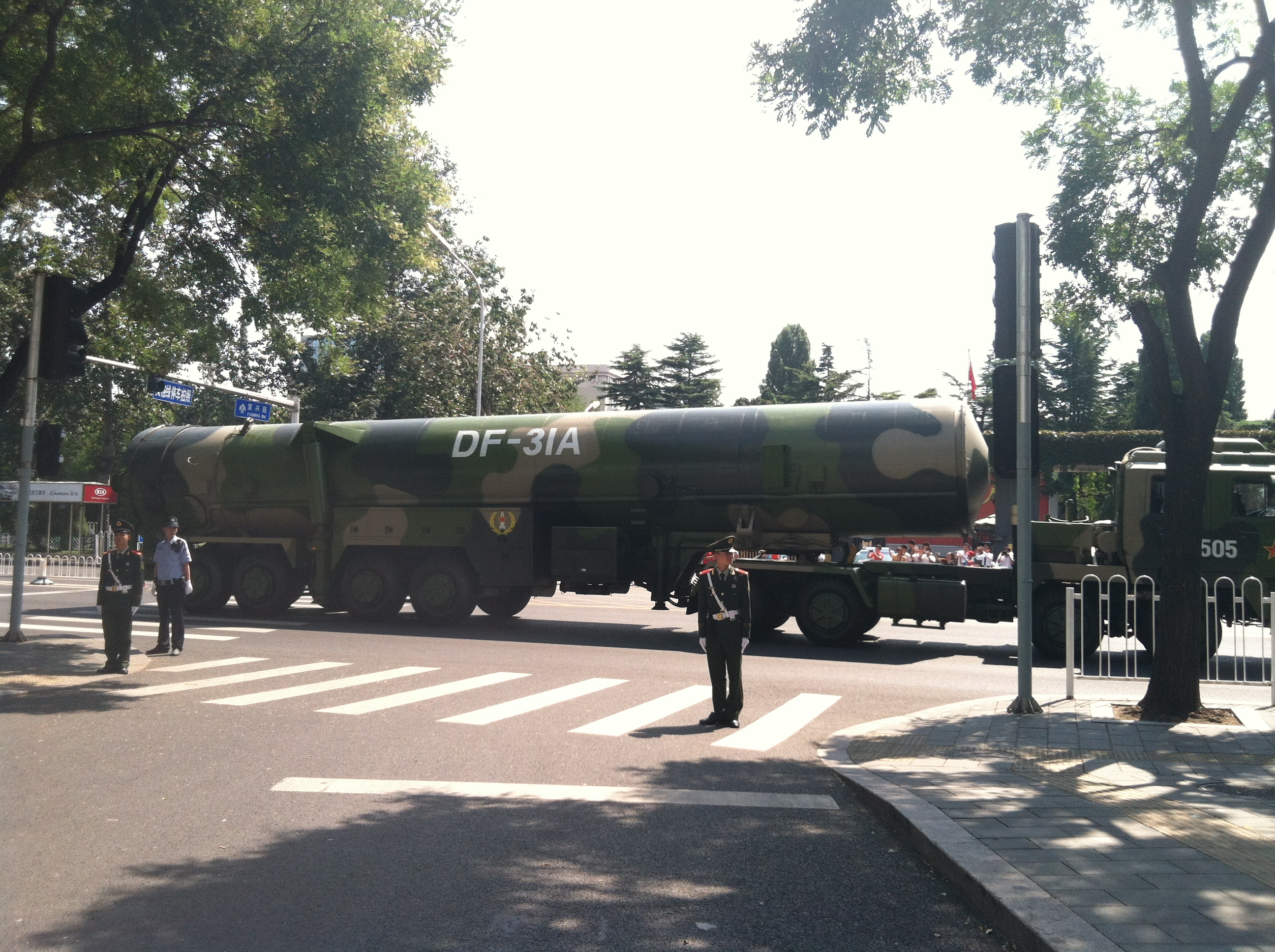 The improved DF-31A intercontinental ballistic missile, captured after the military parade held on September 3, 2015 in Beijing commemorating 70 years since the end of World War II.